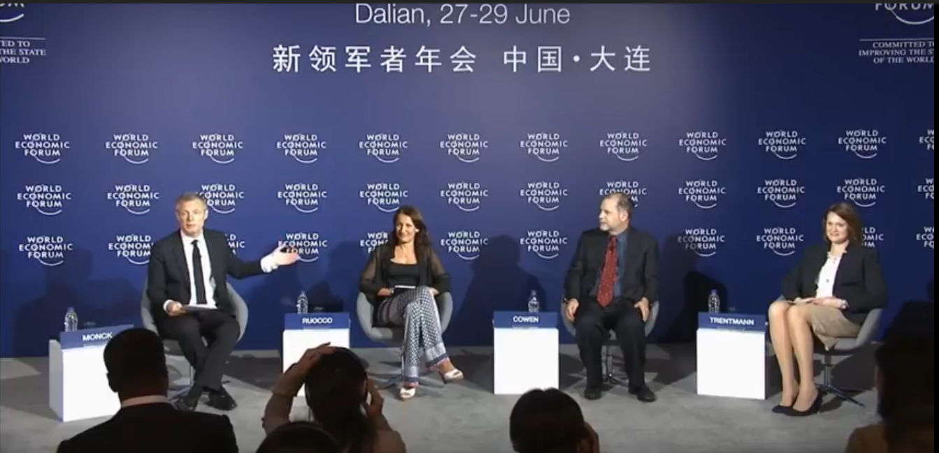 World Economic Forum 2017 Dalian, Cina. 27 giugno 2017